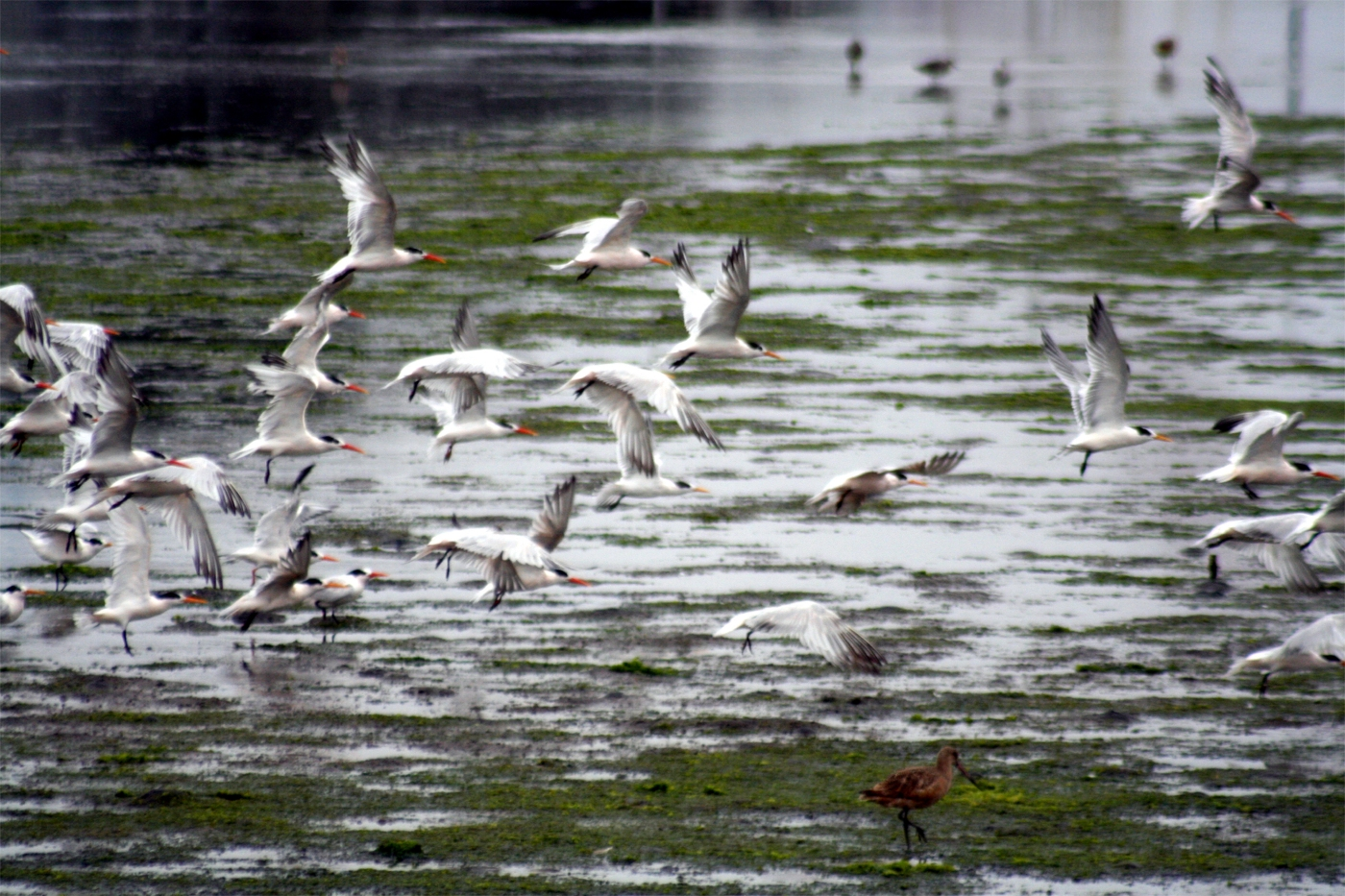 Flying Royal Terns